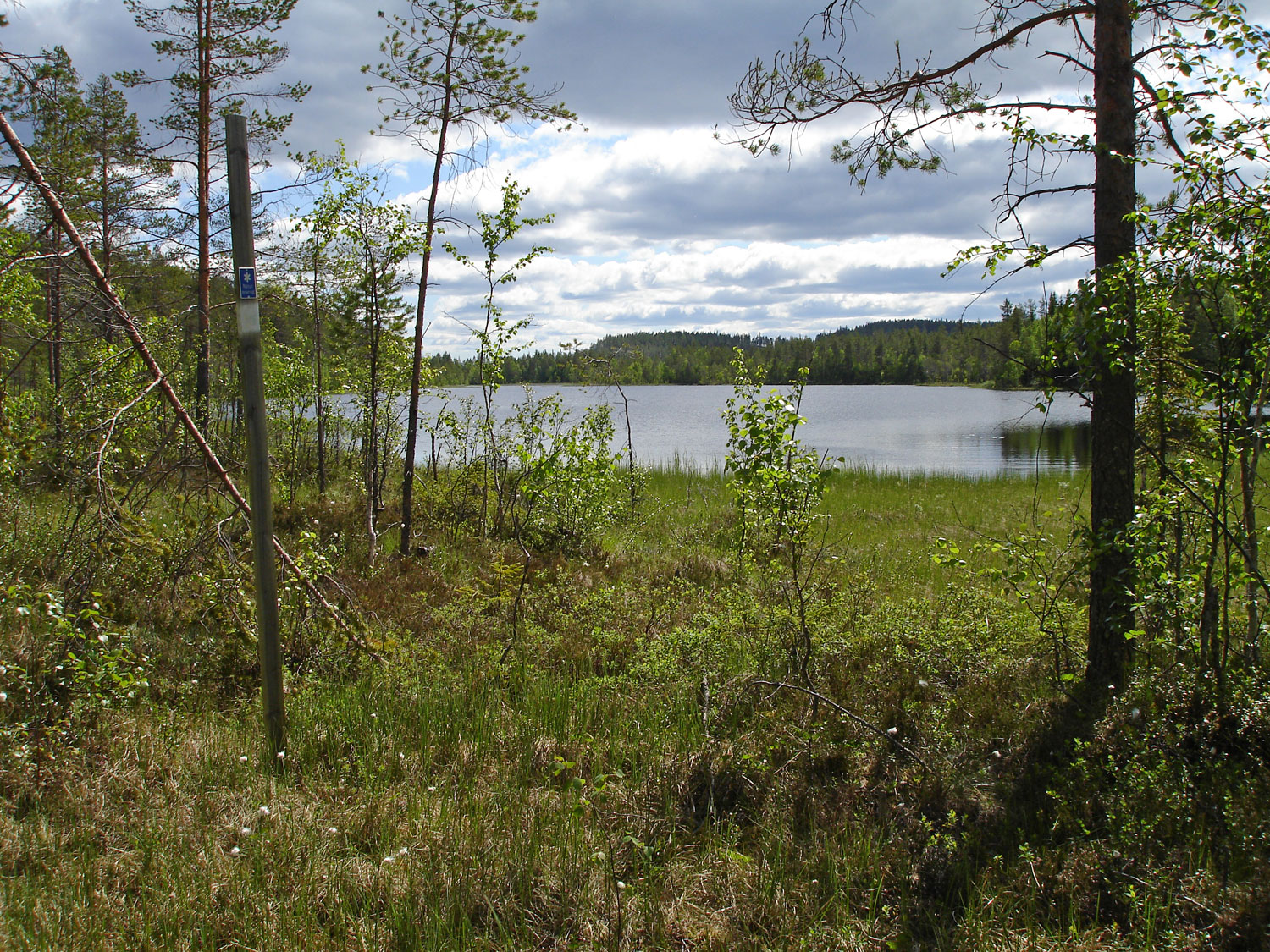 Lake Stor-Gravatjärnen in Bjurholm Municipality, northern Sweden.